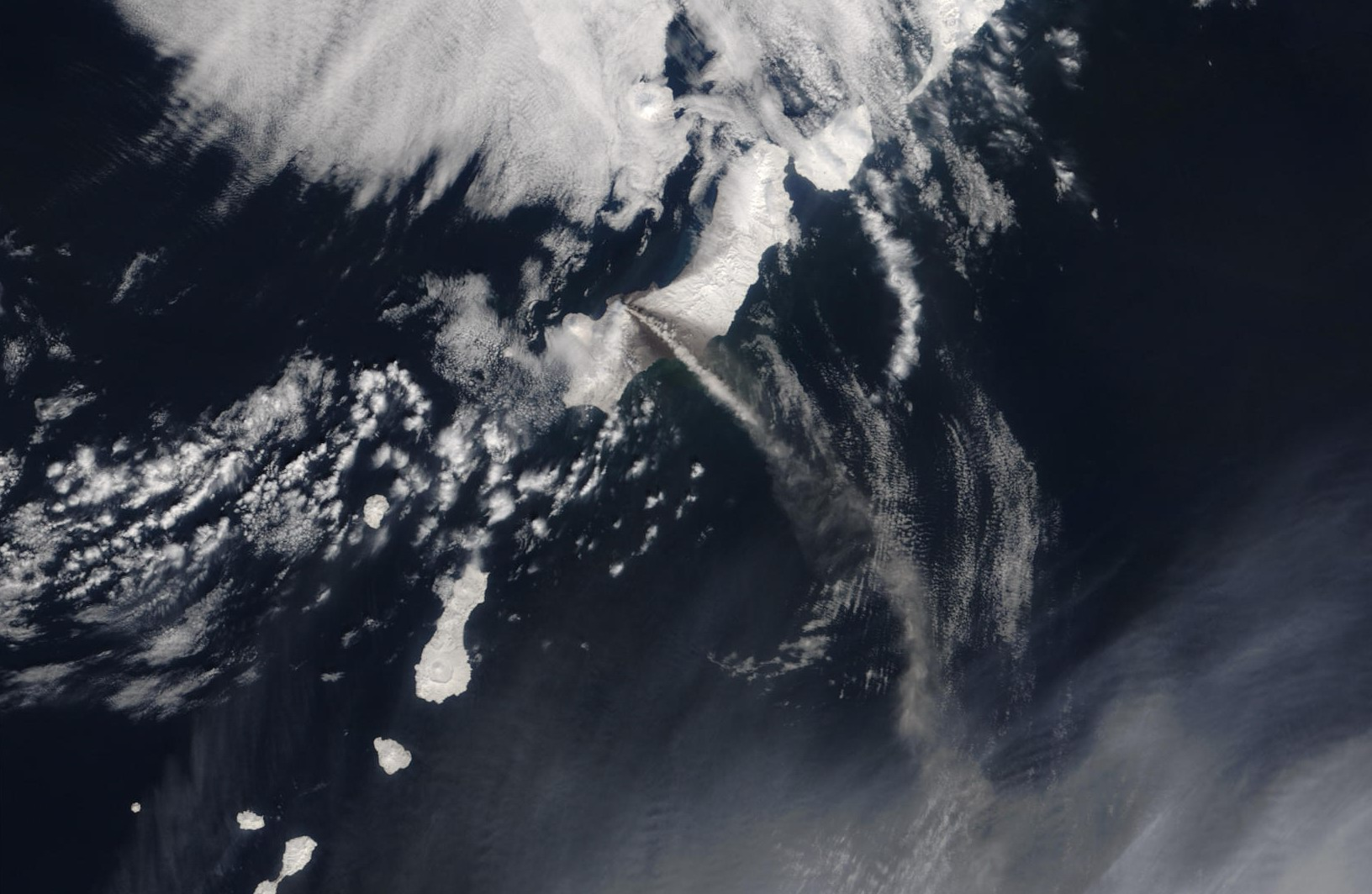 Chikurachki volcano erupting, Kuril Islands